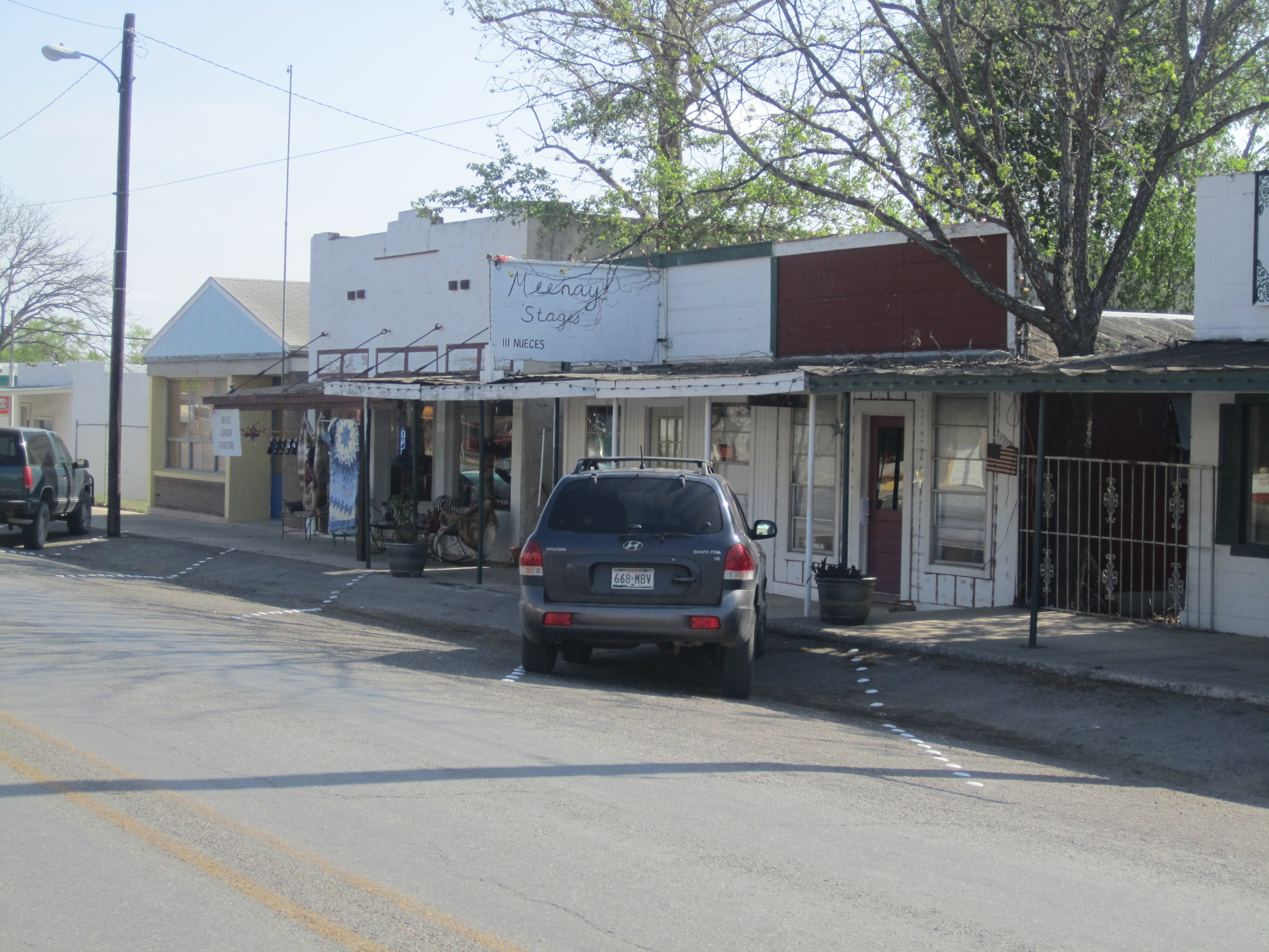 I took photo with Canon camera in Camp Wood, TX, and release photograph.